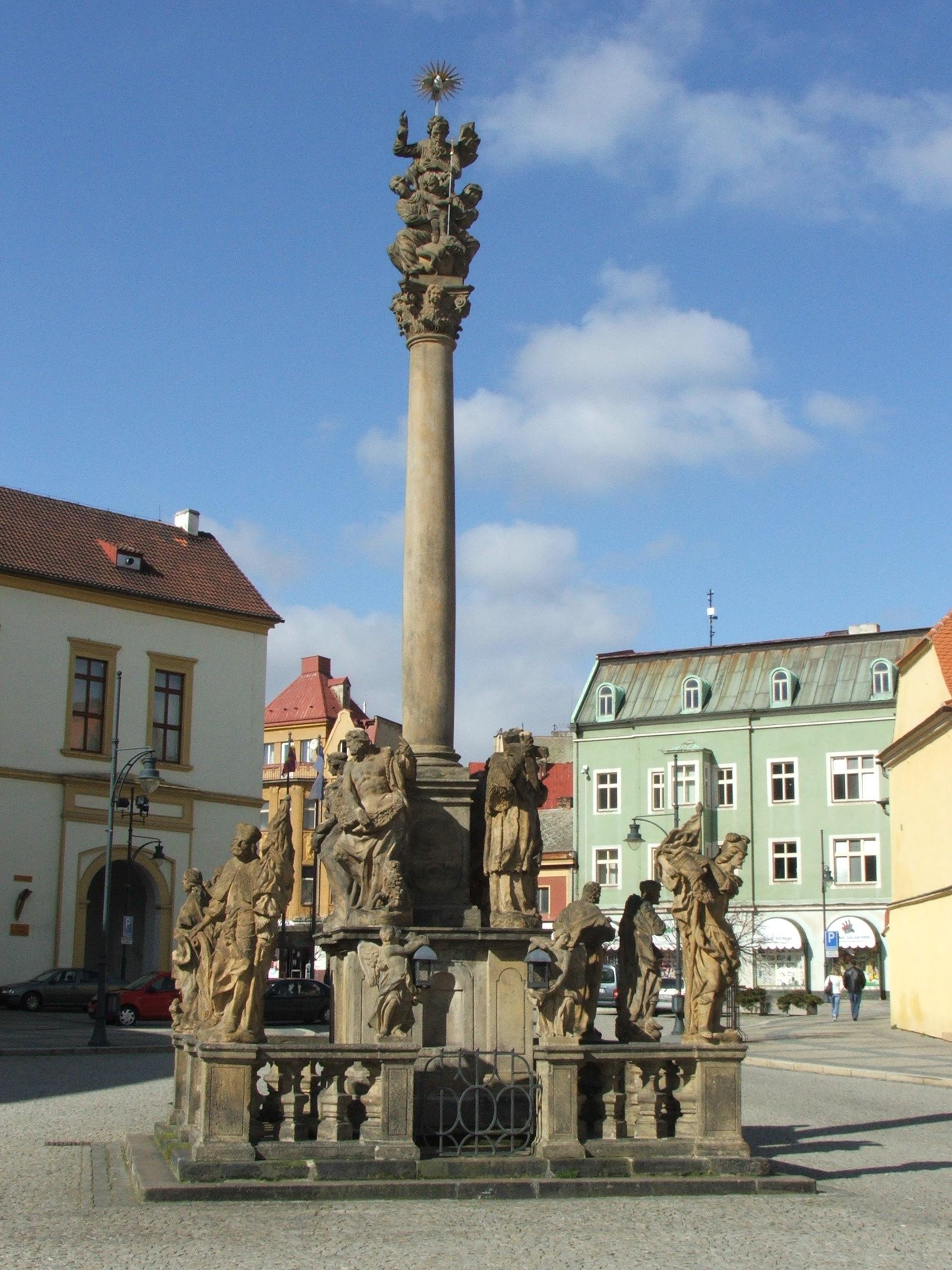 Baroque Holy Trinity column. Erected in 1697 by sculptor Ambroz Laurentis from a commission by Wolf, master of the bakers' guild.